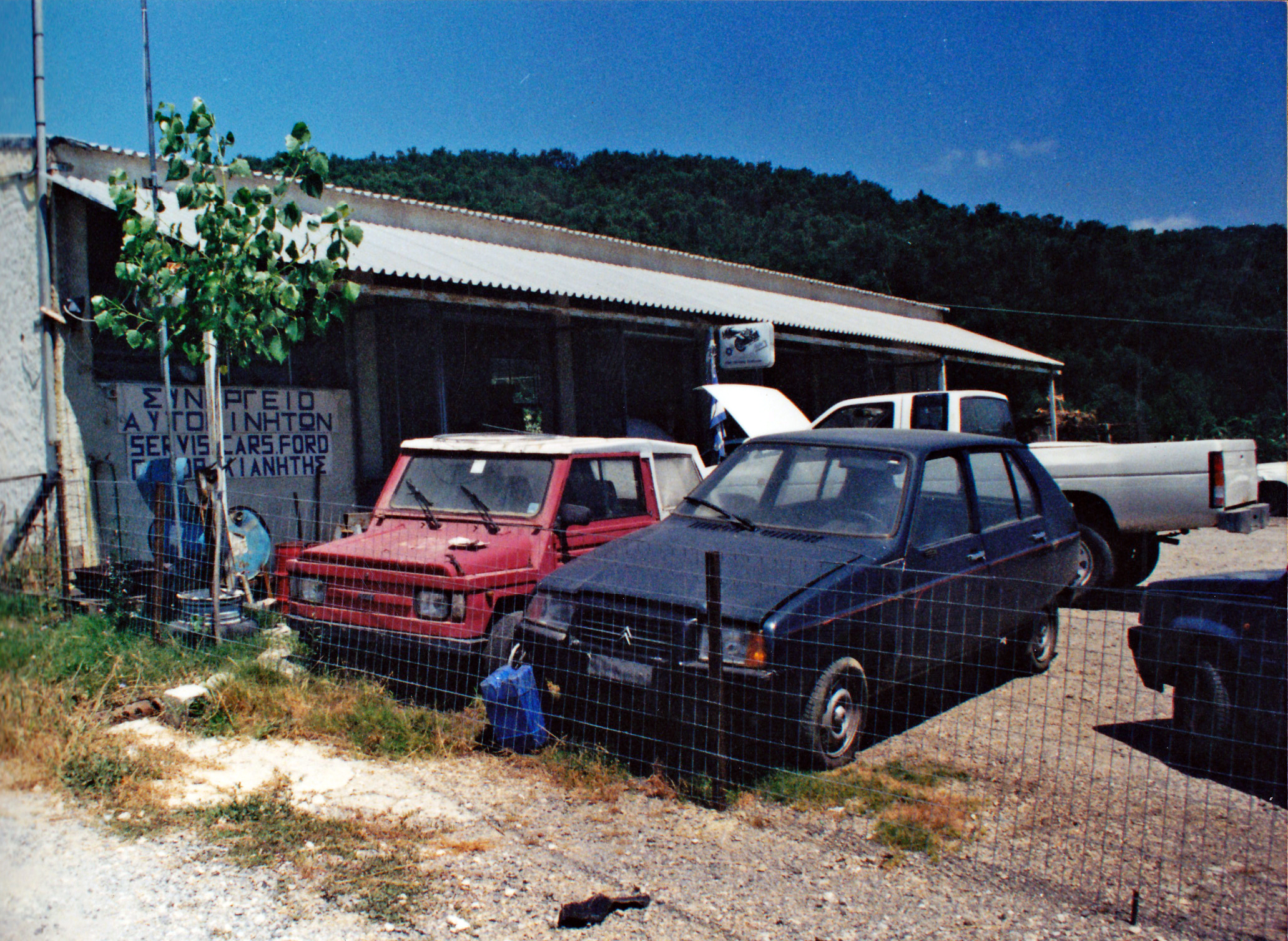 A Moretti Minimaxi! Wow! And an old Citroën Visa and some less interesting stuff. Fellow scooterists were in a rush and kept me from properly exploring/photographing this place.